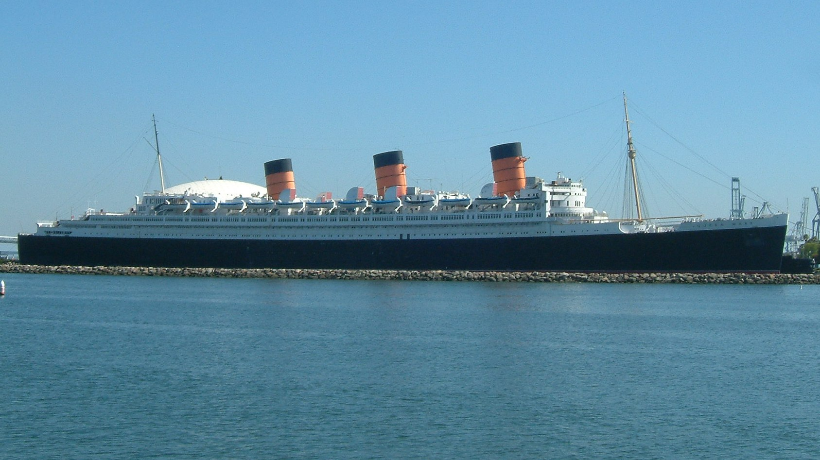 RMS Queen Mary, Long Beach, United-States.